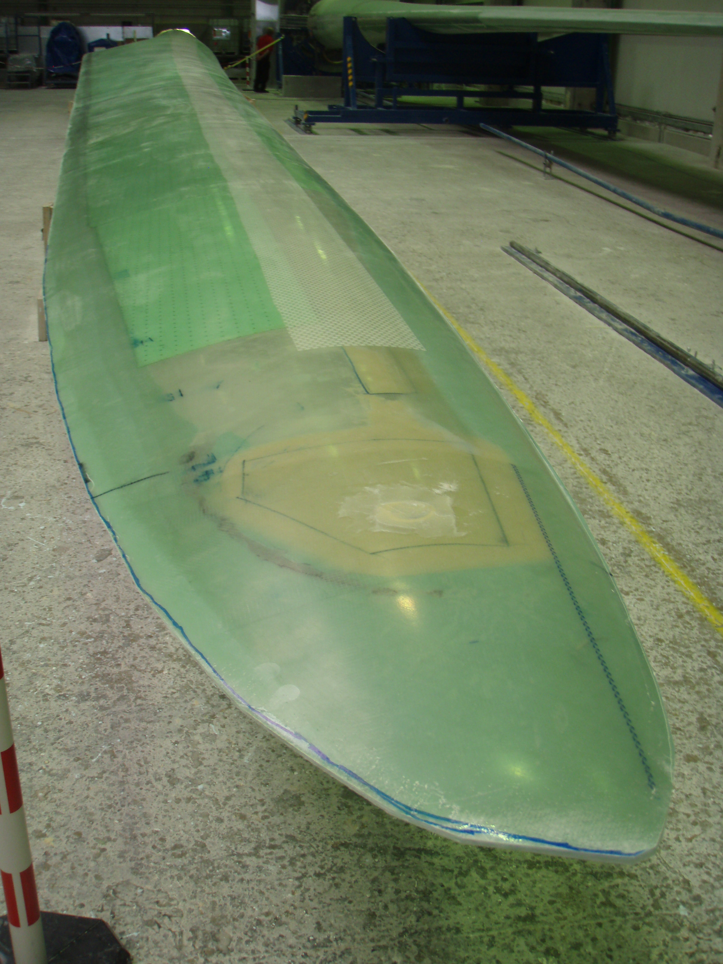 unpainted tip of a rotor blade